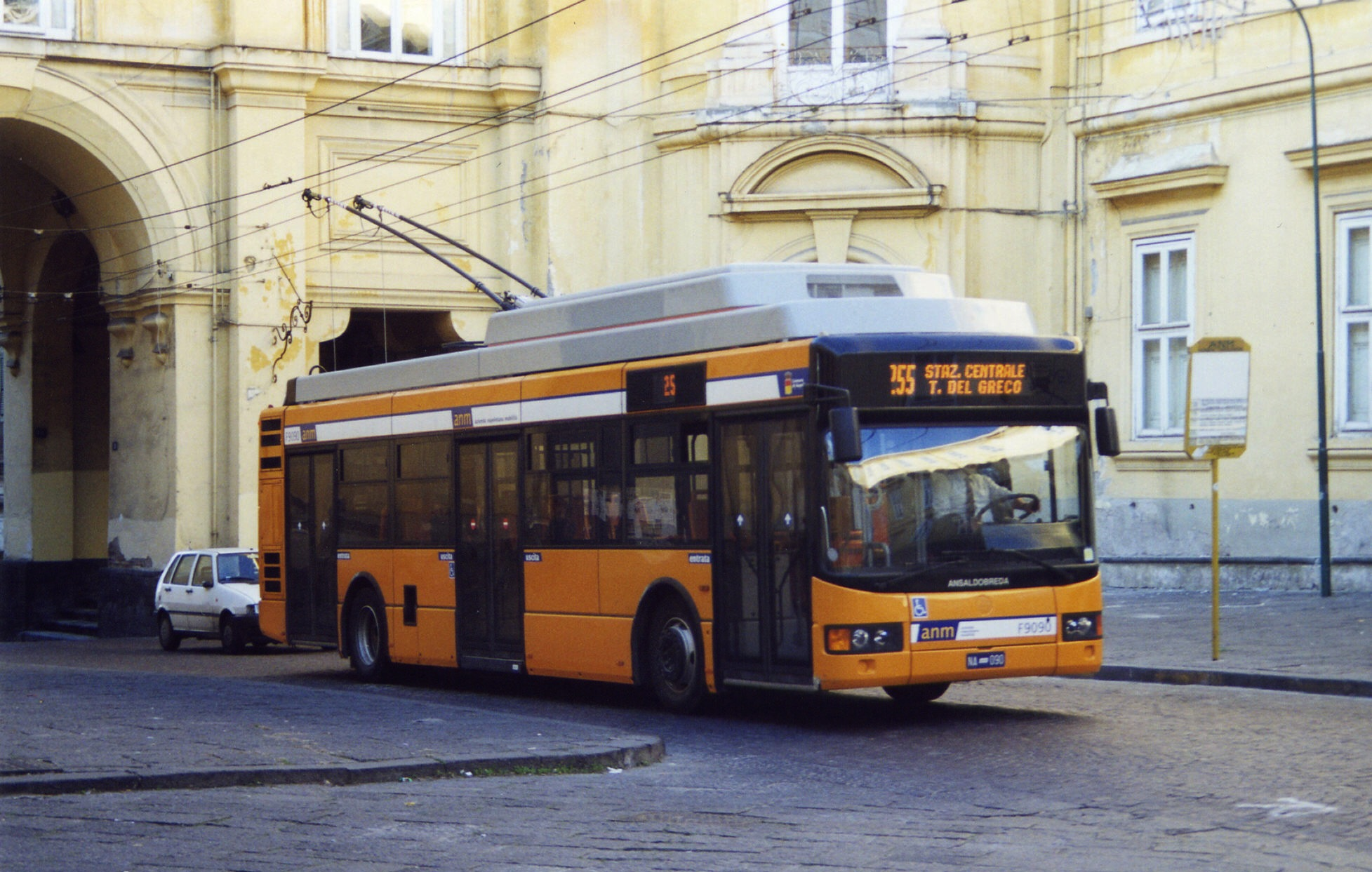 ANM trolleybus F9090, a 2000-built AnsaldoBreda F19, southeast-bound on Via Università in Portici, headed for Torre del Greco on route 255 of the Naples ANM trolleybus system. It is passing through the grounds of the former Palazzo Reale (Palace of Portici) (now accommodating the Agriculture Dept. of the University of Naples). Trolleybus service on this section of route 255 ended in September 2009, originally a temporary suspension (due to major road works nearby) but made a permanent closure in 2014. Trolleybus F9090 is one of 87 trolleybuses built for ANM by AnsaldoBreda, model F19, numbered F9079-F9165, between 1999 and about 2002. Their bodies were built by AnsaldoBreda's bus division, BredaMenarinibus.